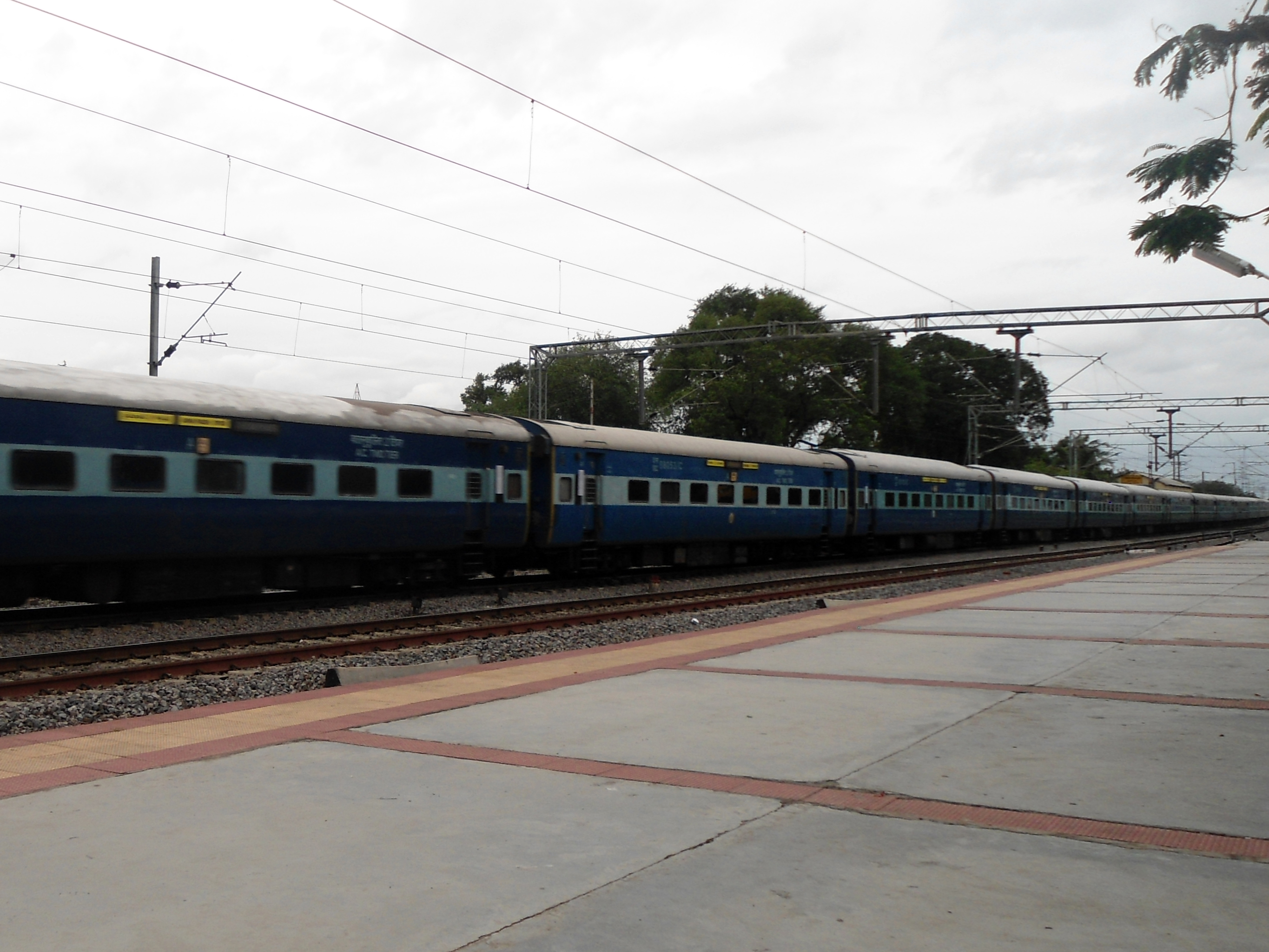 Delhi bound AP Superfast Express crossing Aler Railway Station